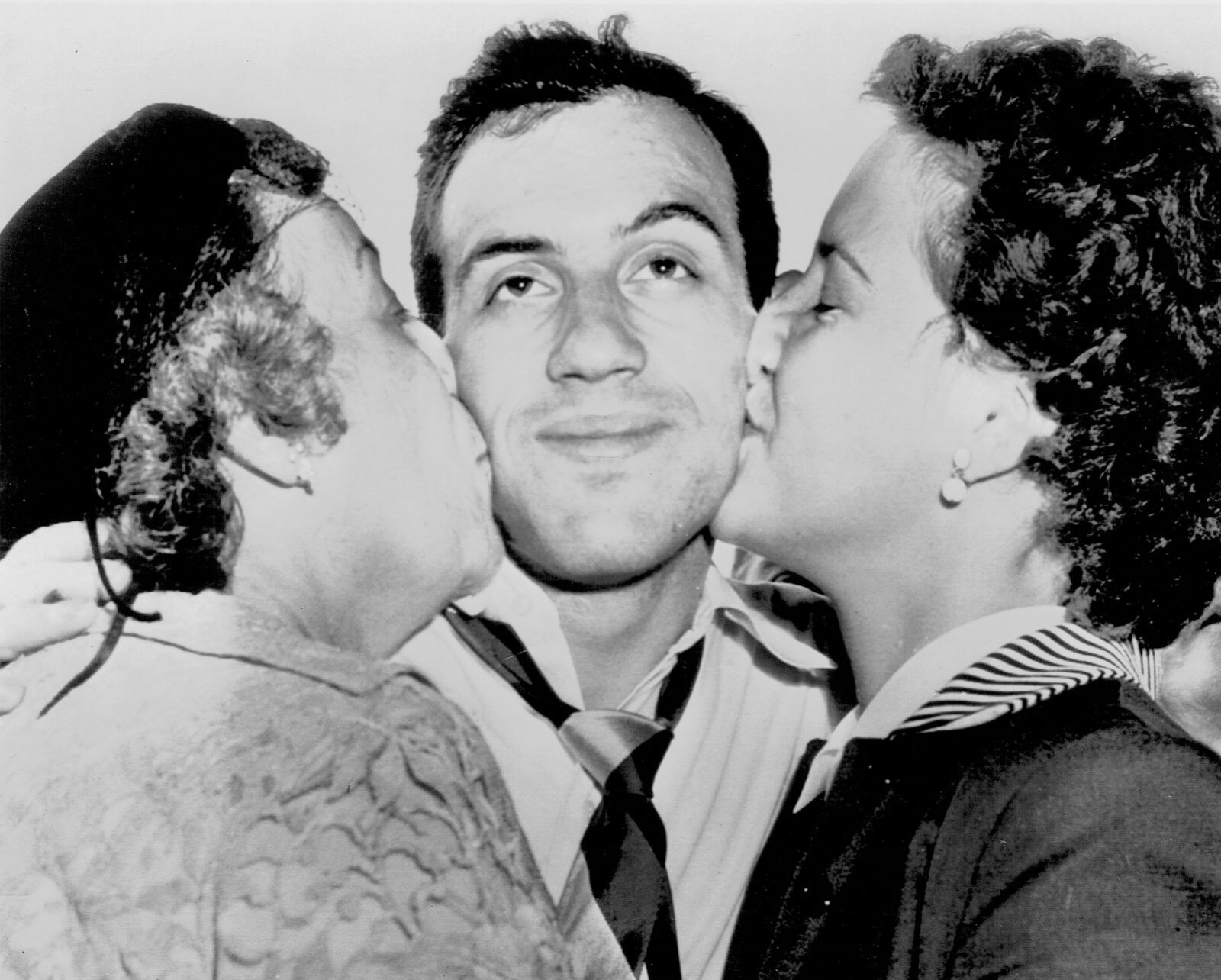 1952 Wire Photo Lindy Remigino gets kisses in NYC after winning Olympic Gold